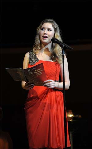 Hayley Westenra during her Christmas tour at the Bridgewater Hall, Manchester, UK, on 14 Dec 2010